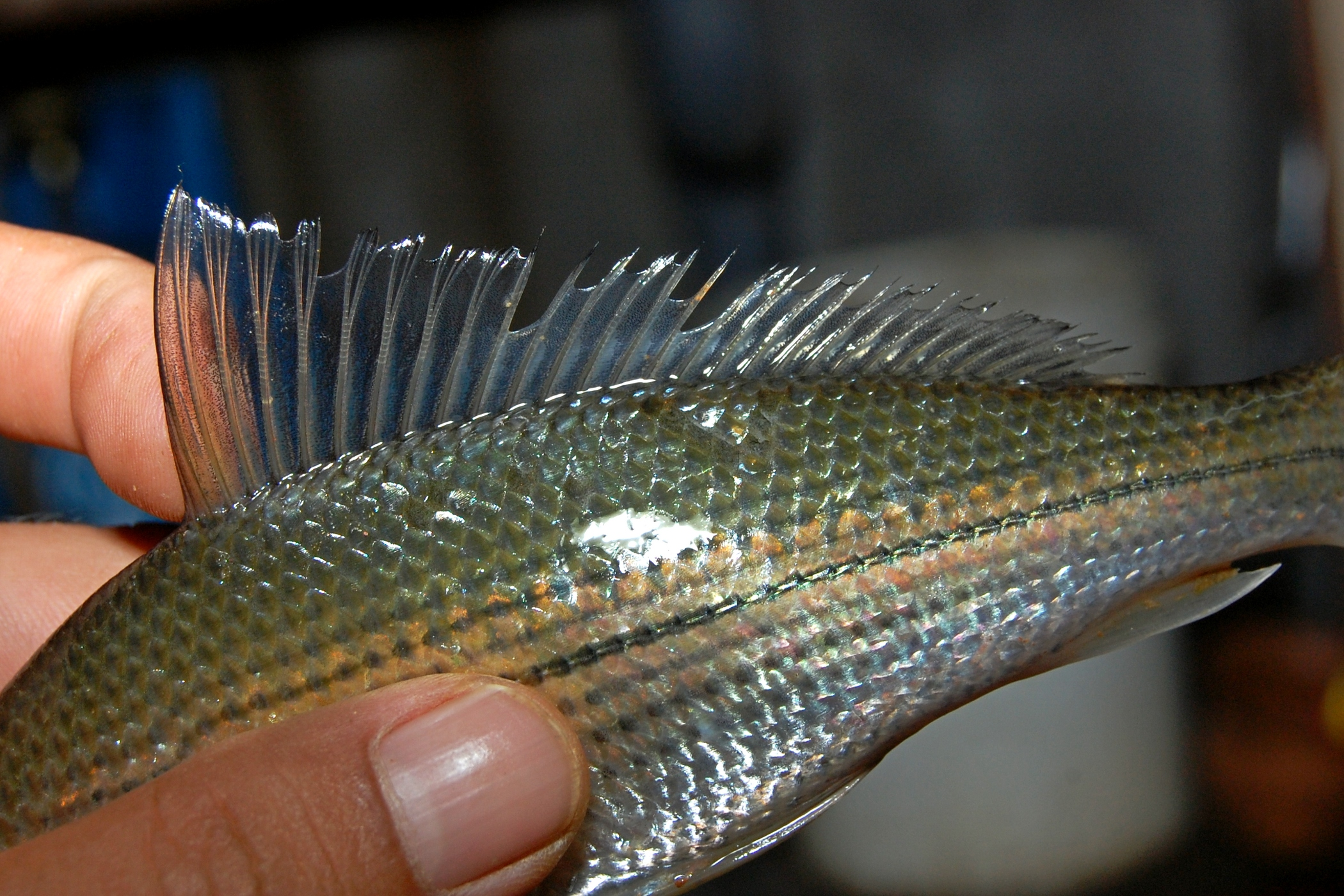 Above: Labiobarbus fasciatus, 144 mm SL (standard length); dorsal fin. From Kawan Batu River (tributary of Mentaya River), Upper Seruyan, Central Kalimantan, Indonesia.